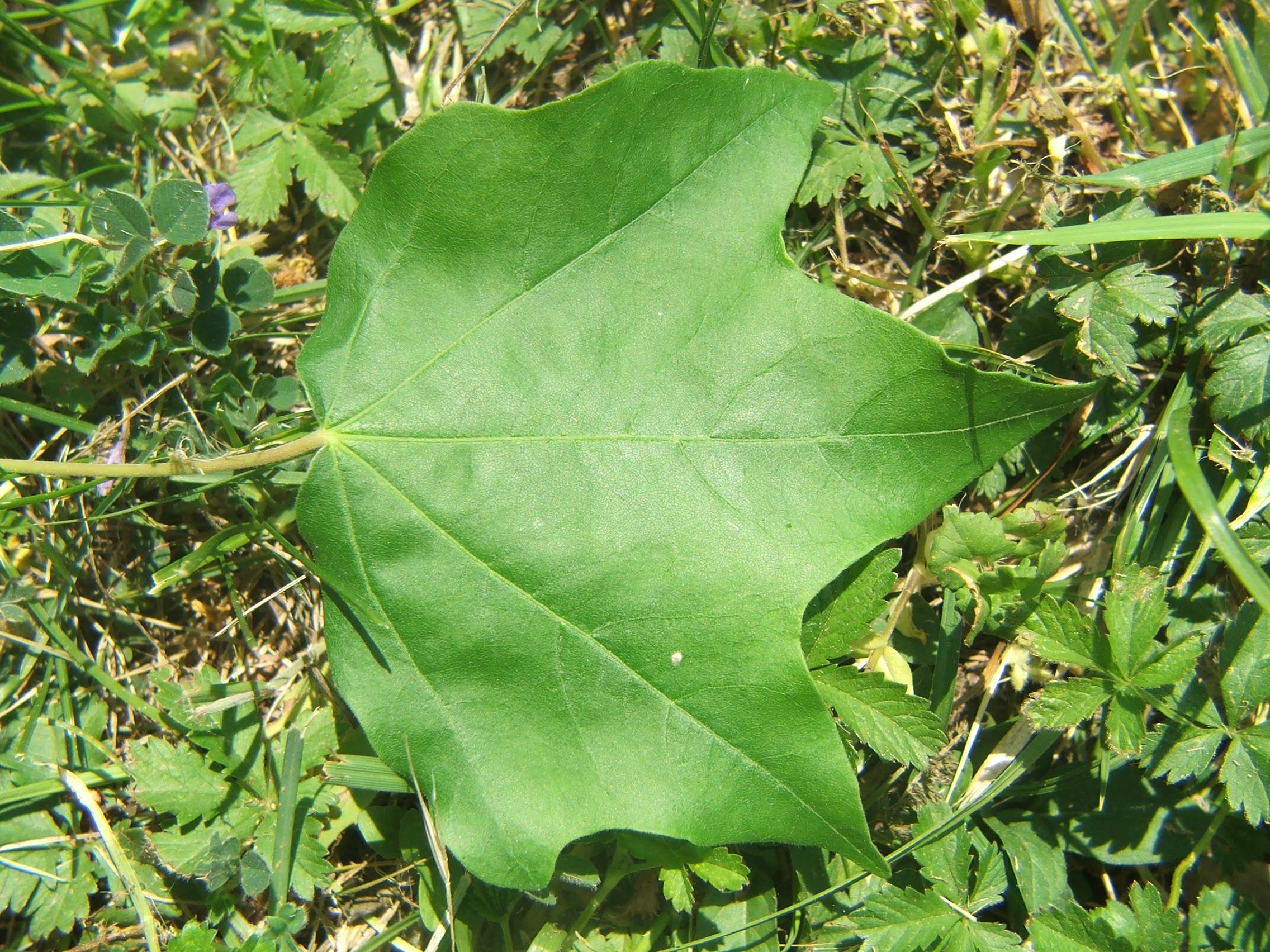 Acer campestre var. acuminatilobum or Acer acuminatilobum. Endemic varietas or species in Hungary.